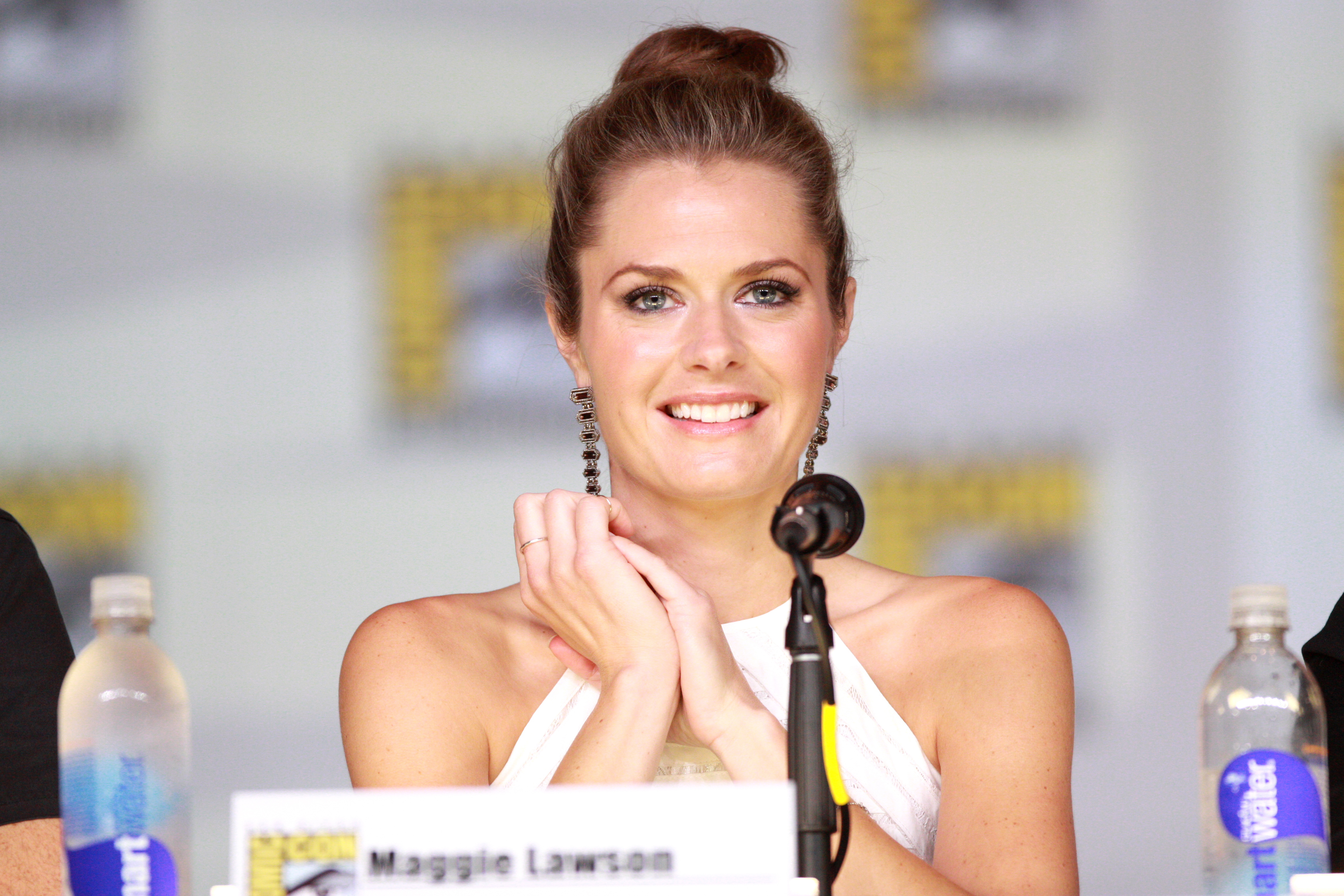 Maggie Lawson speaking at the 2013 San Diego Comic Con International, for "Psych", at the San Diego Convention Center in San Diego, California.